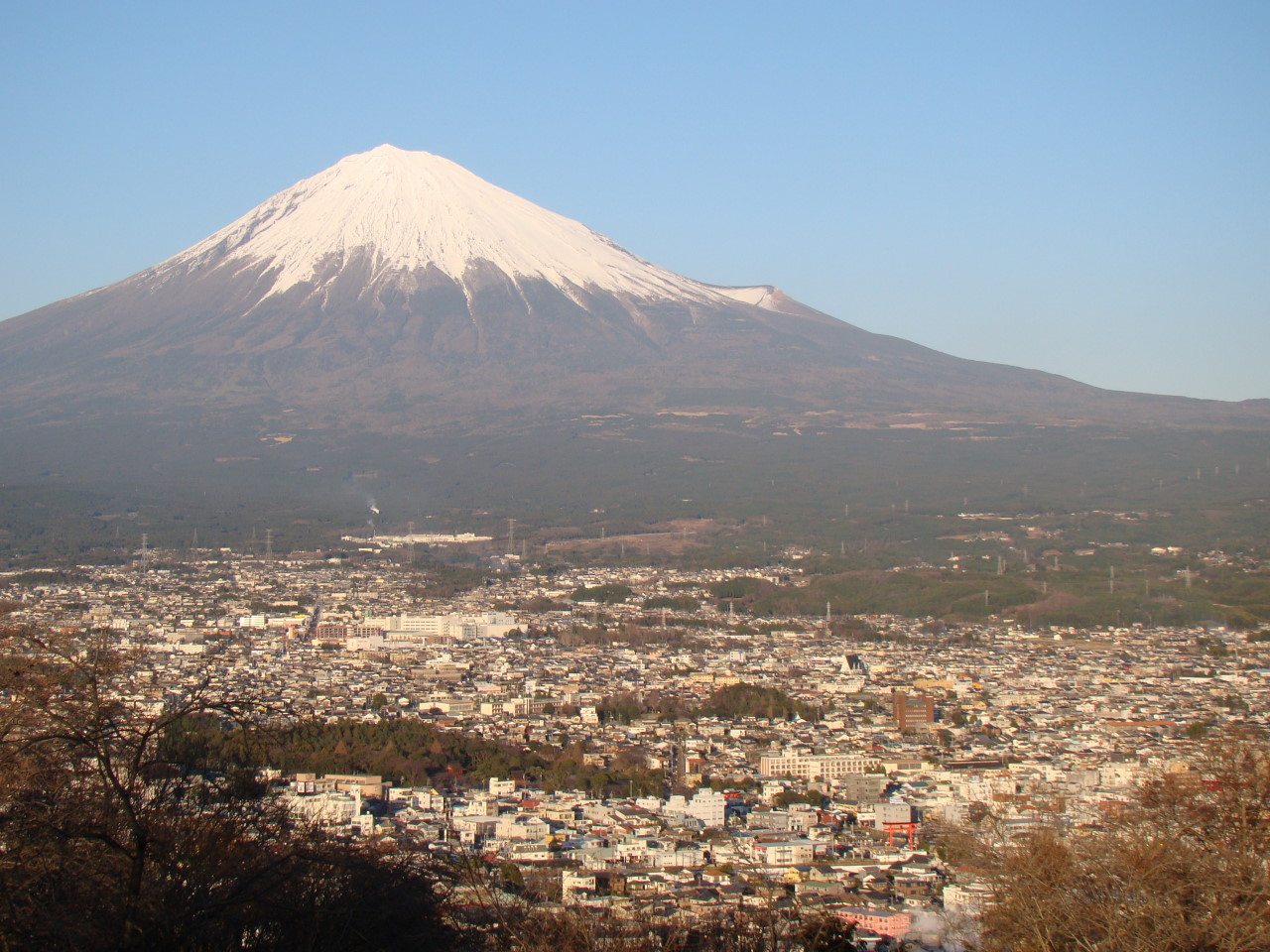 Fujinomiya city Shizuoka Japan